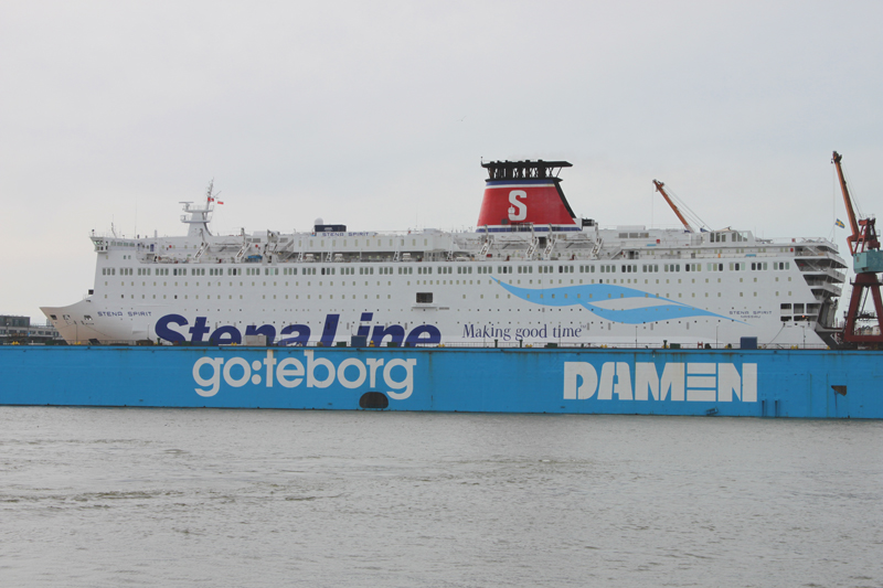 MS Stena Spirit in dock